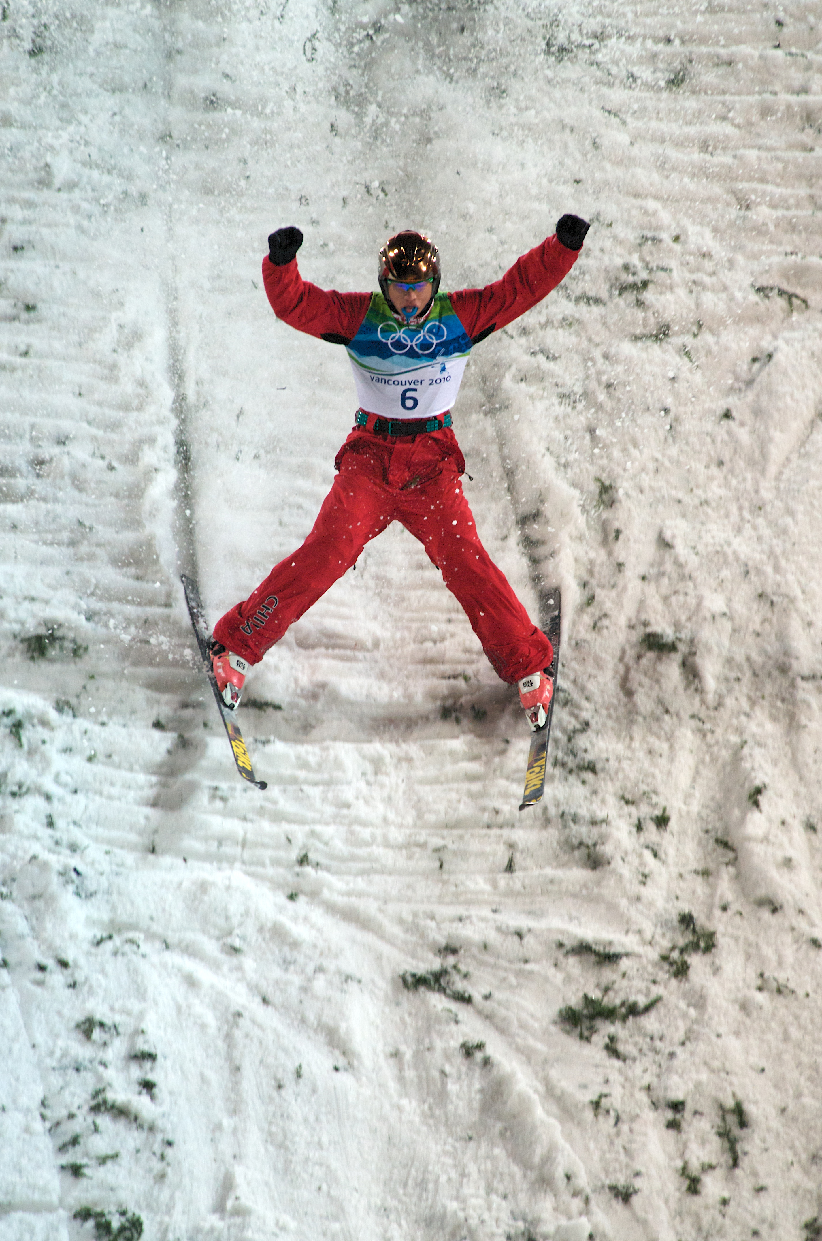 Liu Zhongqing (born November 10, 1985) is a Chinese aerial skier. He won a bronze medal at the 2010 Winter Olympics in the aerials.